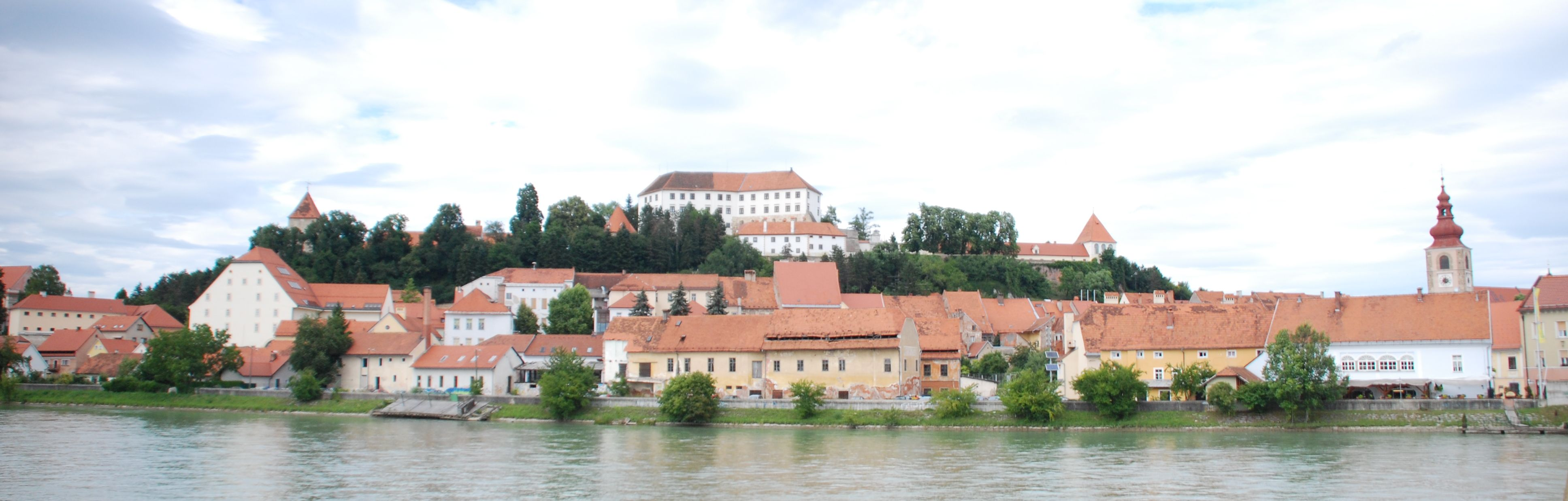 A vista of the downtown of Ptuj (Slovenia). Photo taken from the right bank of the Drava.